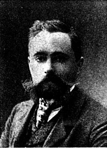 Mamert Wikszemski